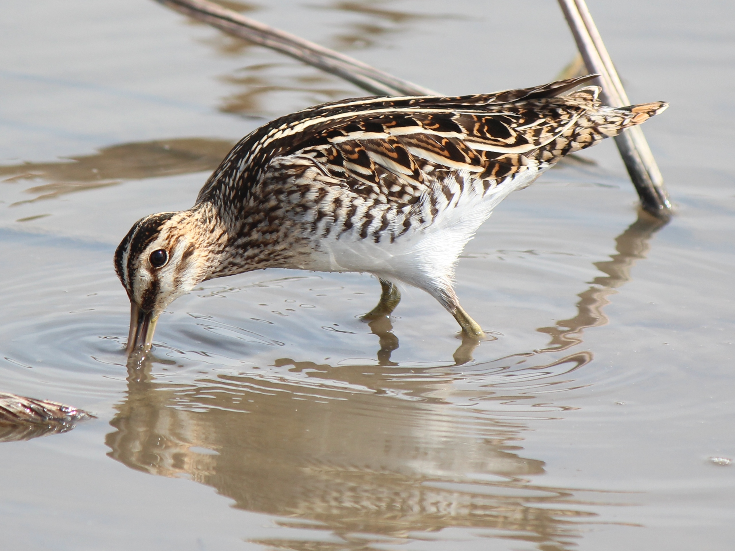 Gallinago gallinago (Common snipe) eating in Japan